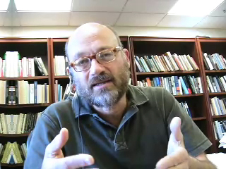 Stanford University political philosopher Joshua Cohen. Image source is a screen shot from a BloggingHeads.tv video podcast.